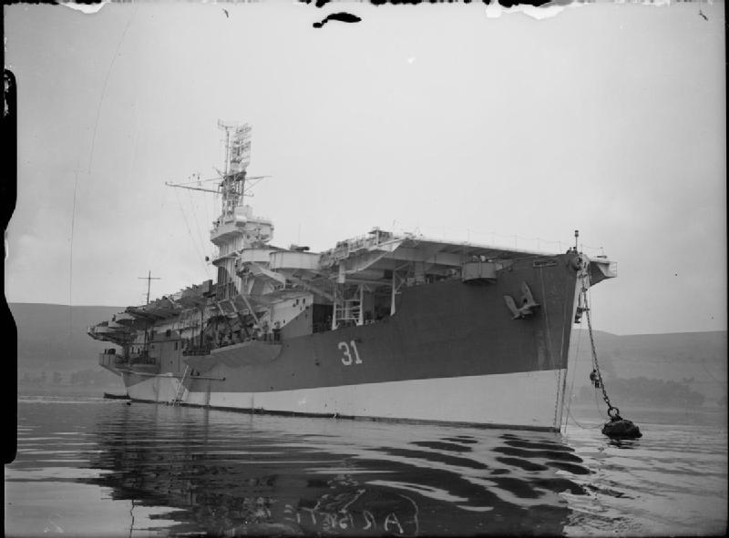 British Bogue class escort carrier HMS ARBITER moored at Greenock.